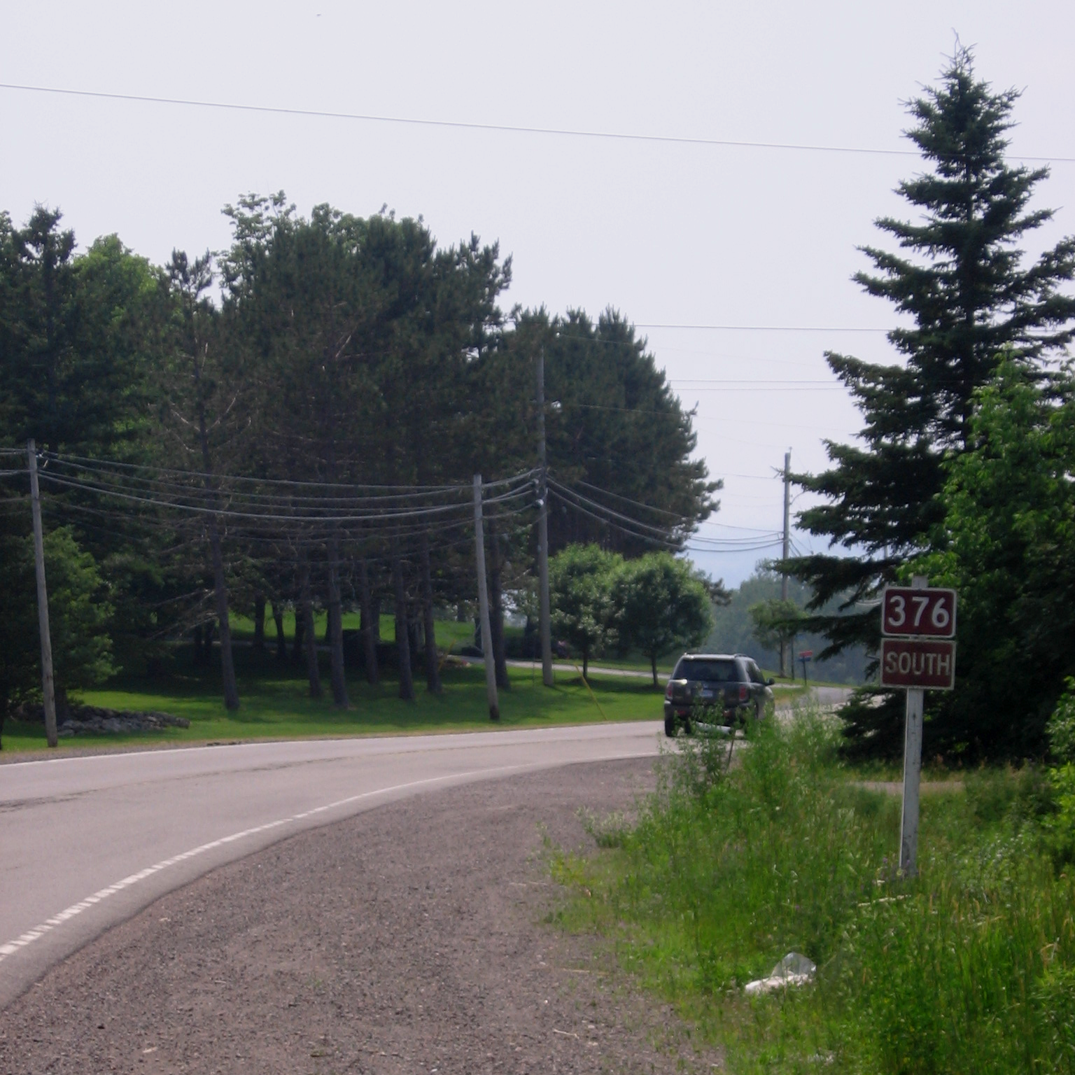 Highway sign outside Pictou NS